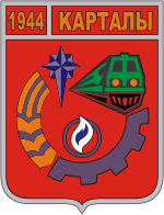 Kartaly (Chelyabinsk oblast), coat of arms (1999) before 2002